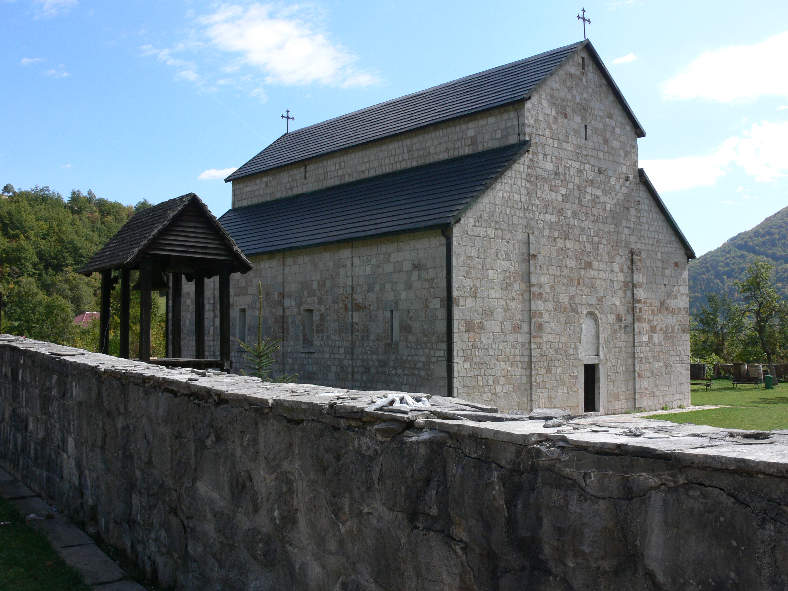 Piva monastery (Montenegro), close up view